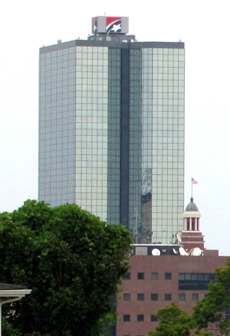 The Plaza Tower, or First Tennessee Plaza, the tallest building in Knoxville, Tennessee, USA, viewed from Laurel Avenue in the Fort Sanders neighborhood.